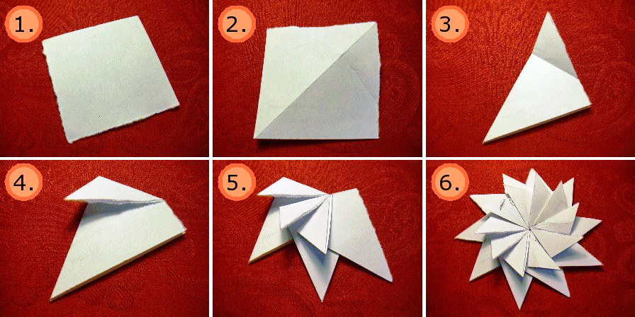 motif: Christmas star as handicrafts.